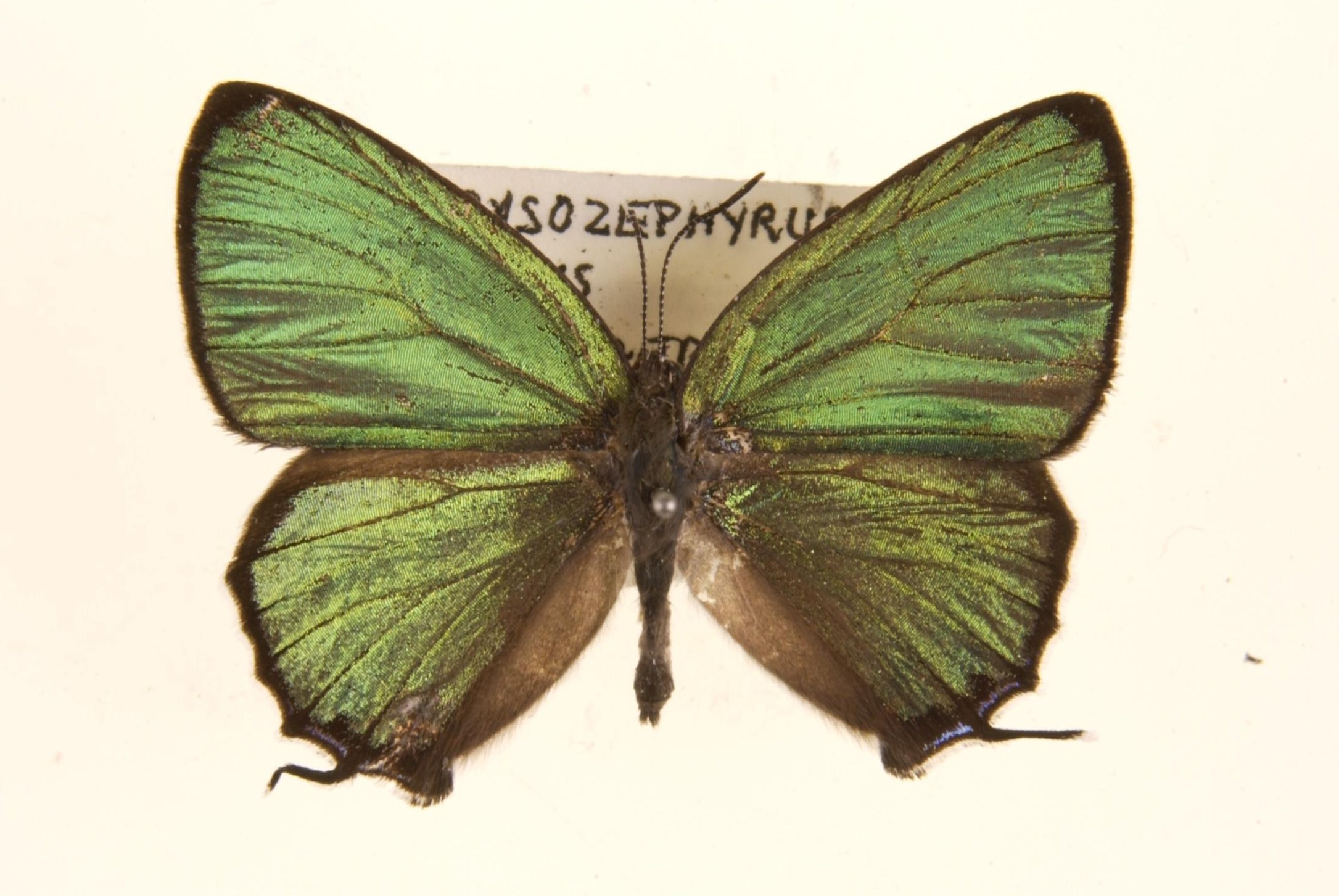 Thermozephyrus ataxus (Westwood, [1851]) T. a. kirishimaensis (Okajima, 1922)Male